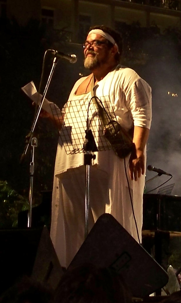 Greek composer Stamatis Kraounakis (Σταμάτης Κραουνάκης), July 2007.